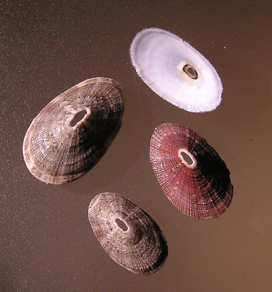 Fissurella mutabilis, Sowerby, 1834; a keyhole limpet from the family Fissurellidae; Atlantic Cape Coast, South Africa